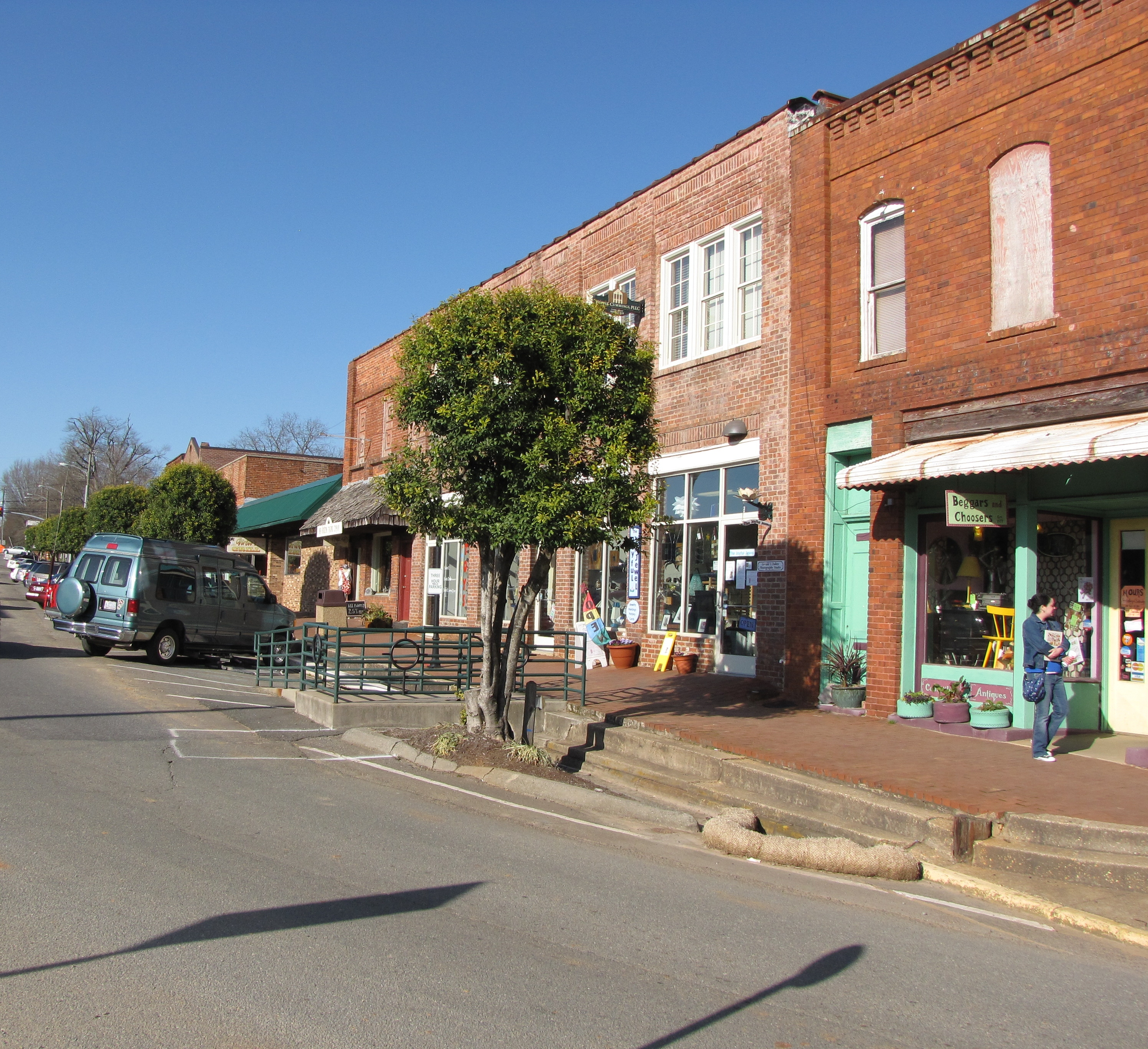 A view up Hillsboro Street in Pittsboro, North Carolina.